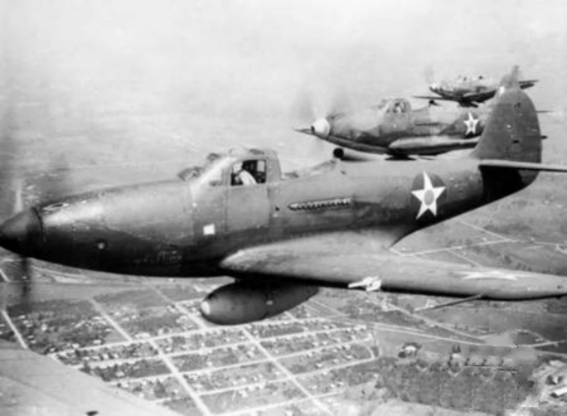 USAAF Bell P-39D Airacobra aircraft from the 8th Fighter Group, flying in formation over Australia, in ealry 1942.